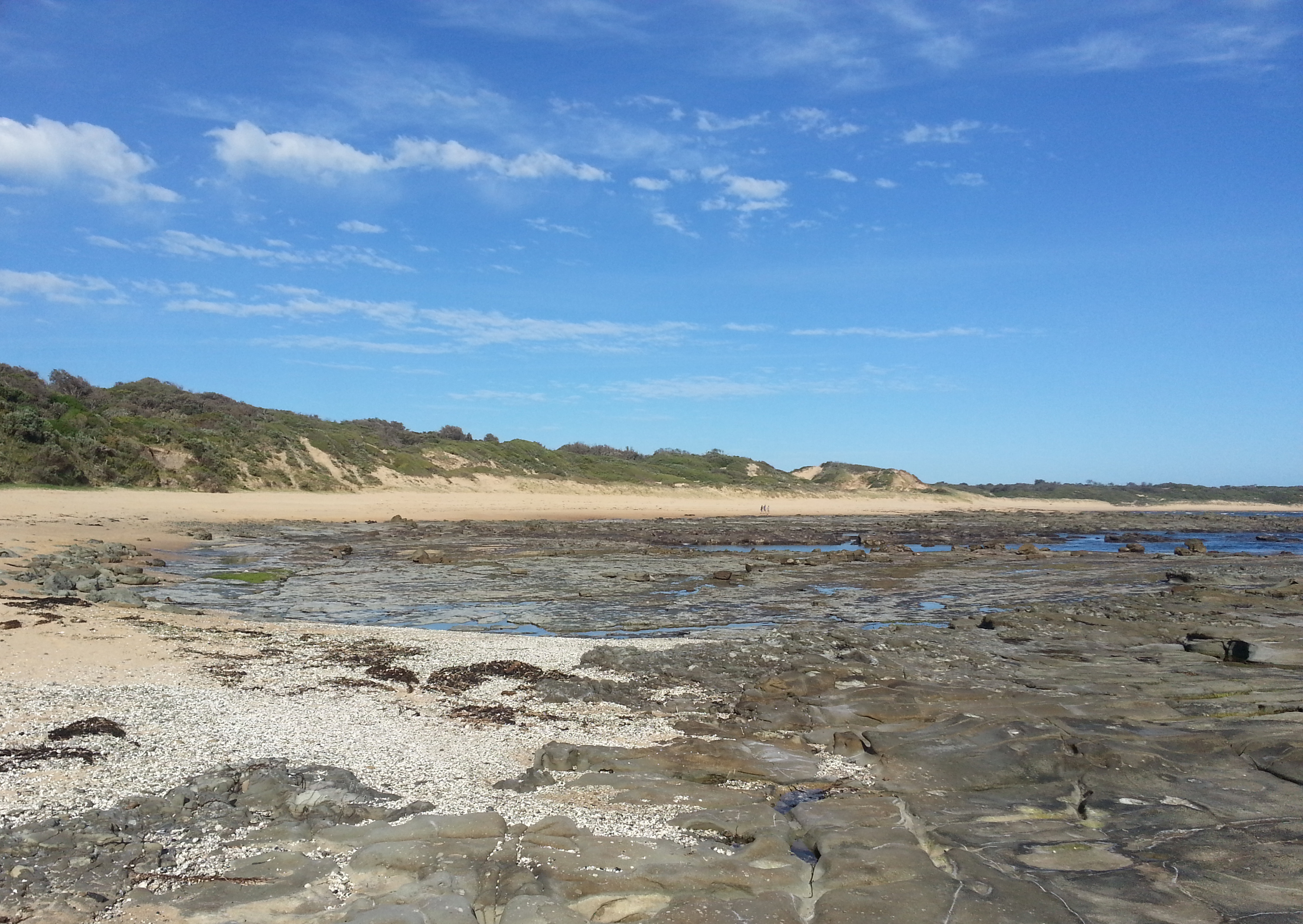 Reef at Bunurong Marine Park, Harmers Haven, Victoria, Australia